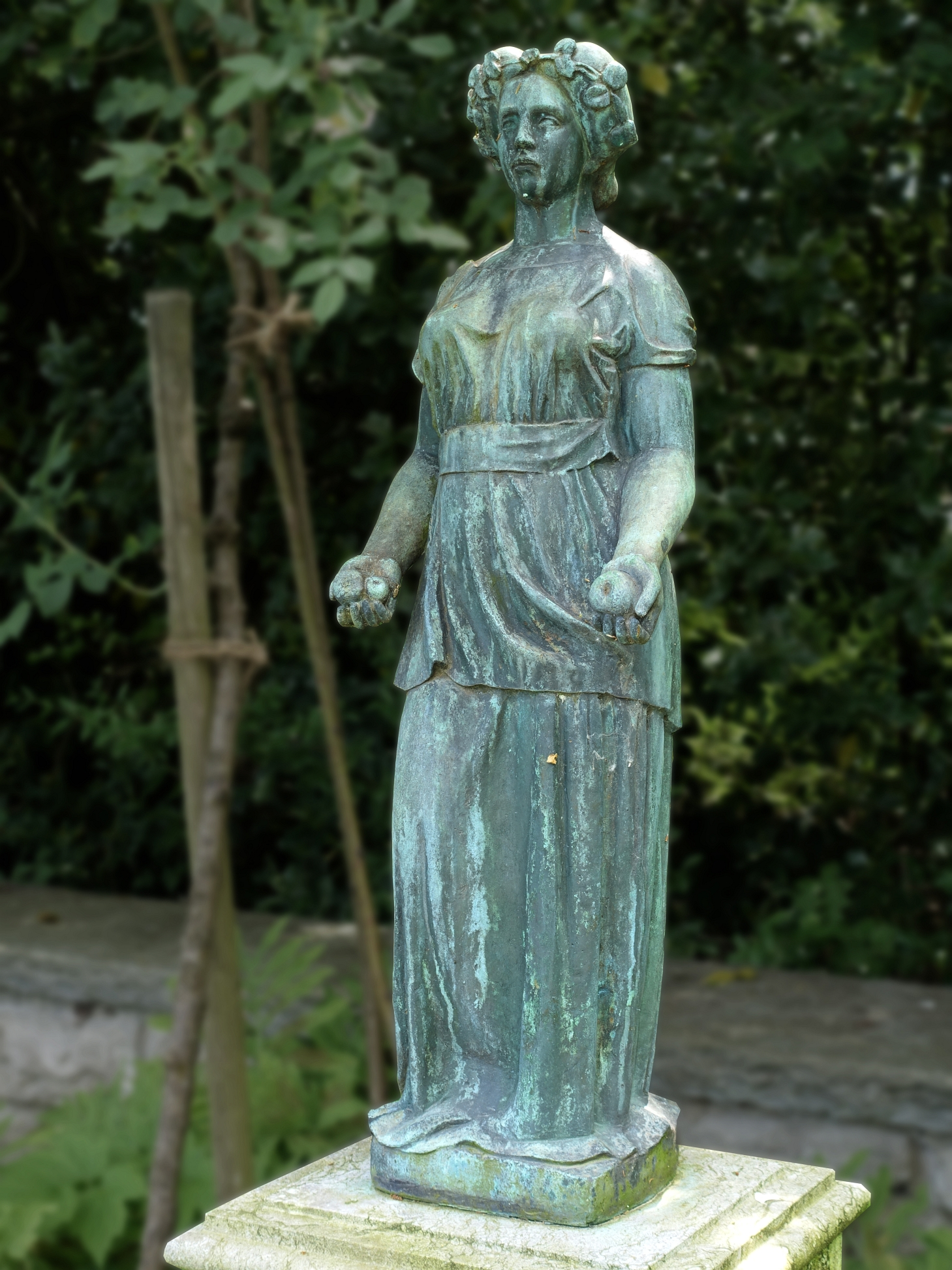 Aristide Maillol (1861-1944) Bildhauer Maler Grafiker. Grab-Bronze Nr. 6, Friedhof am Hörnli, Basel; Schweiz